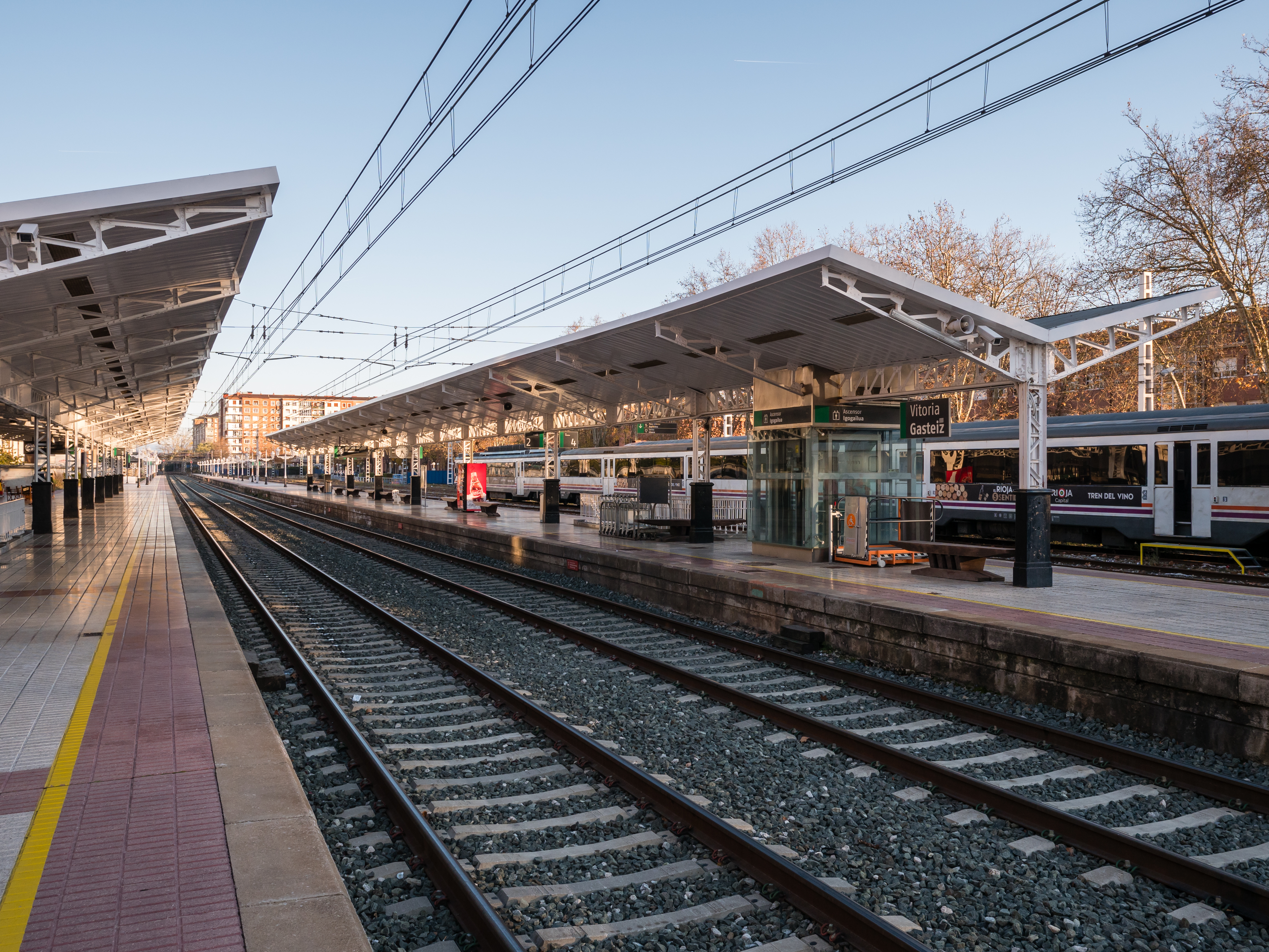 Railway station of Vitoria-Gasteiz. Basque Country, Spain